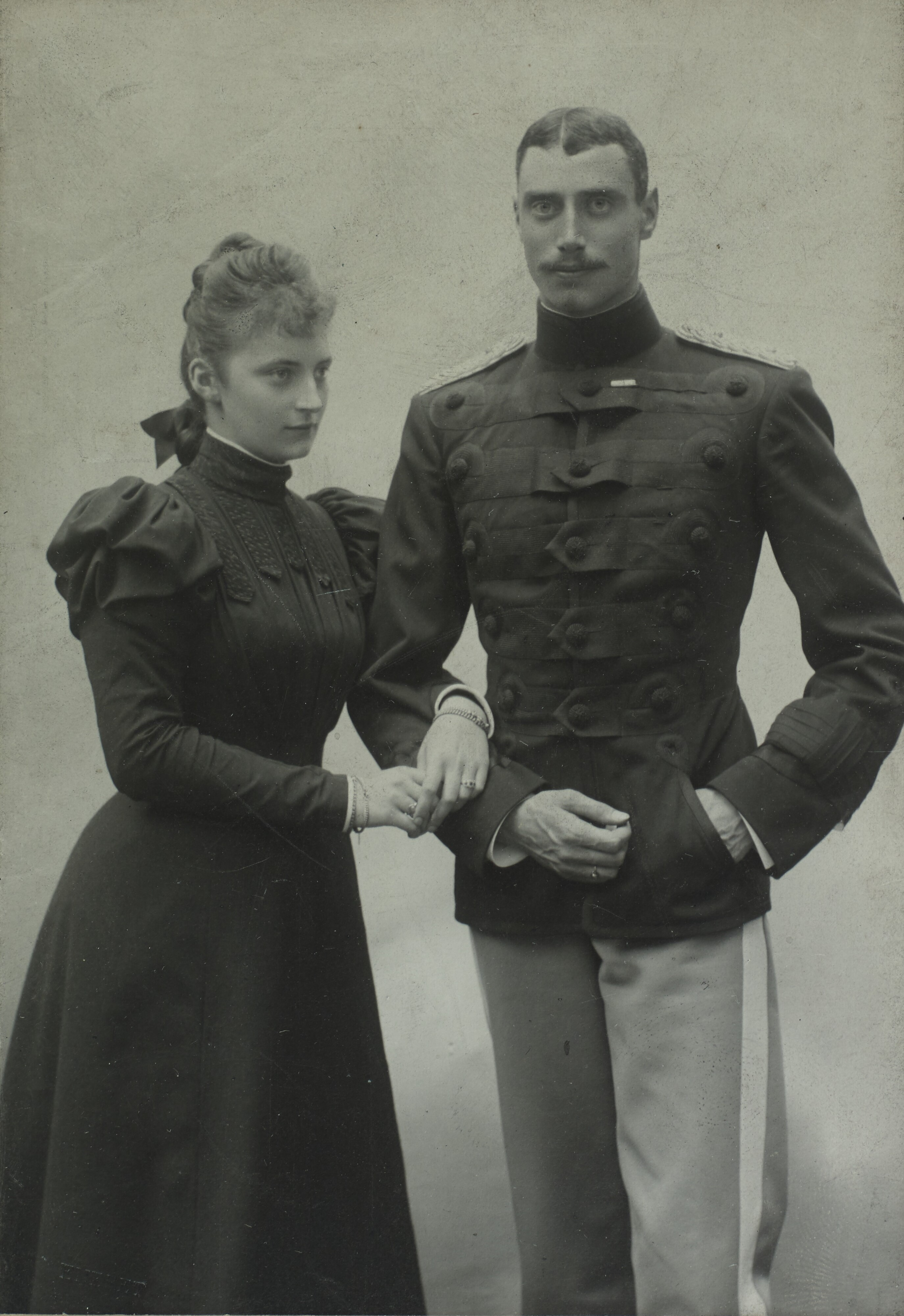 Alexandrine of Mecklenburg and Christian x of Denmark double portrait